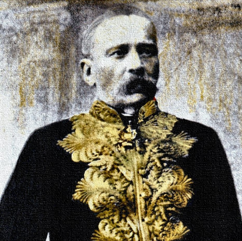 Baron Alexander Wassilko von Serecki (1827-1893), governor of Bukovina from 1870-1871 and 1884-1892.